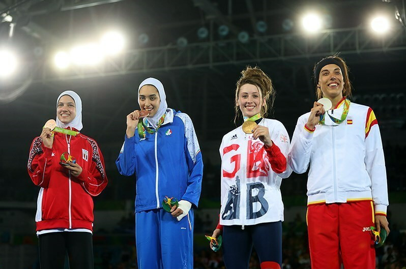 Podium in Taekwondo at the 2016 Summer Olympics women 57 kg. From left: Hedaya Malak (Egypt), Kimia Alizadeh (Iran), Jade Jones (Great Britain), Eva Calvo (Spain)